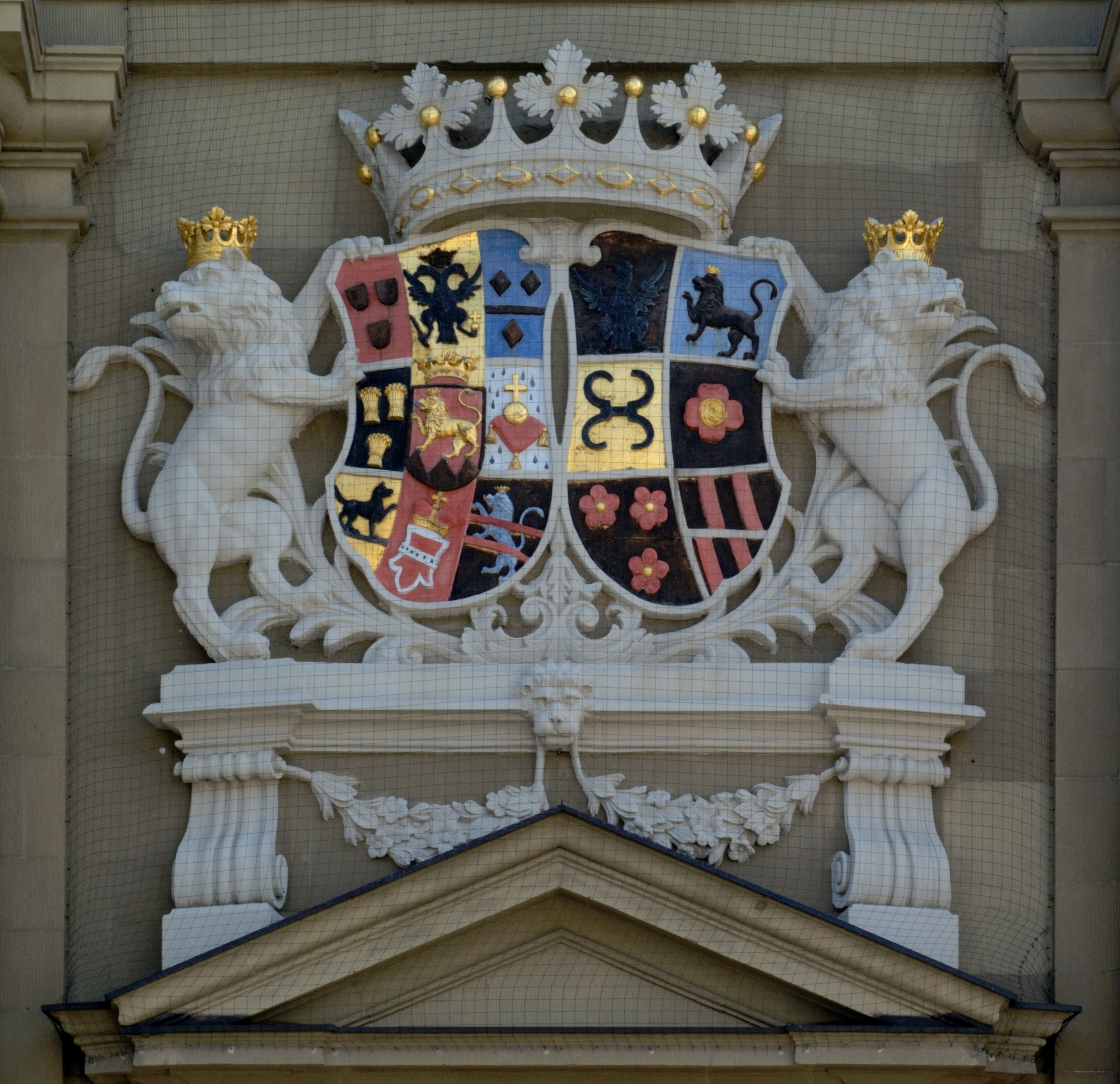 Germany, Wiesentheid, parish church St. Mauritius, coat of arms of Graf Rudolf Franz Erwein von Schönborn and his wife Maria Eleonore